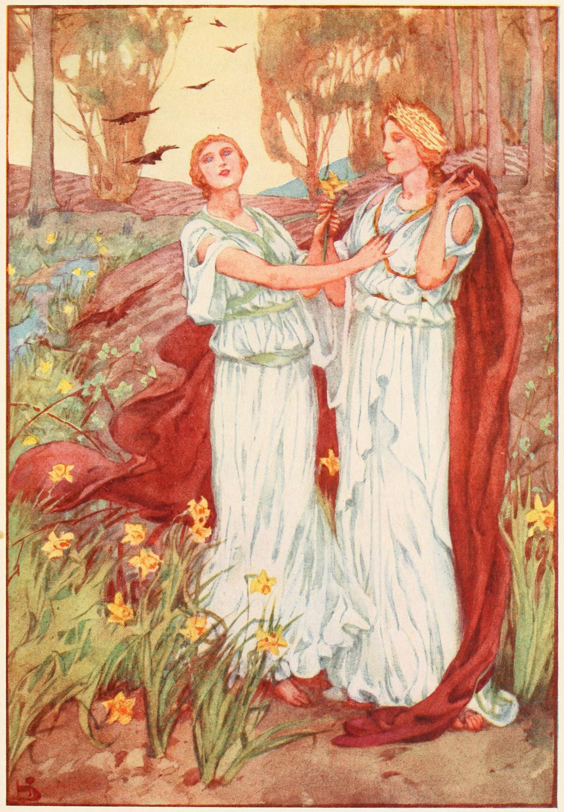 Illustration from a collection of myths.